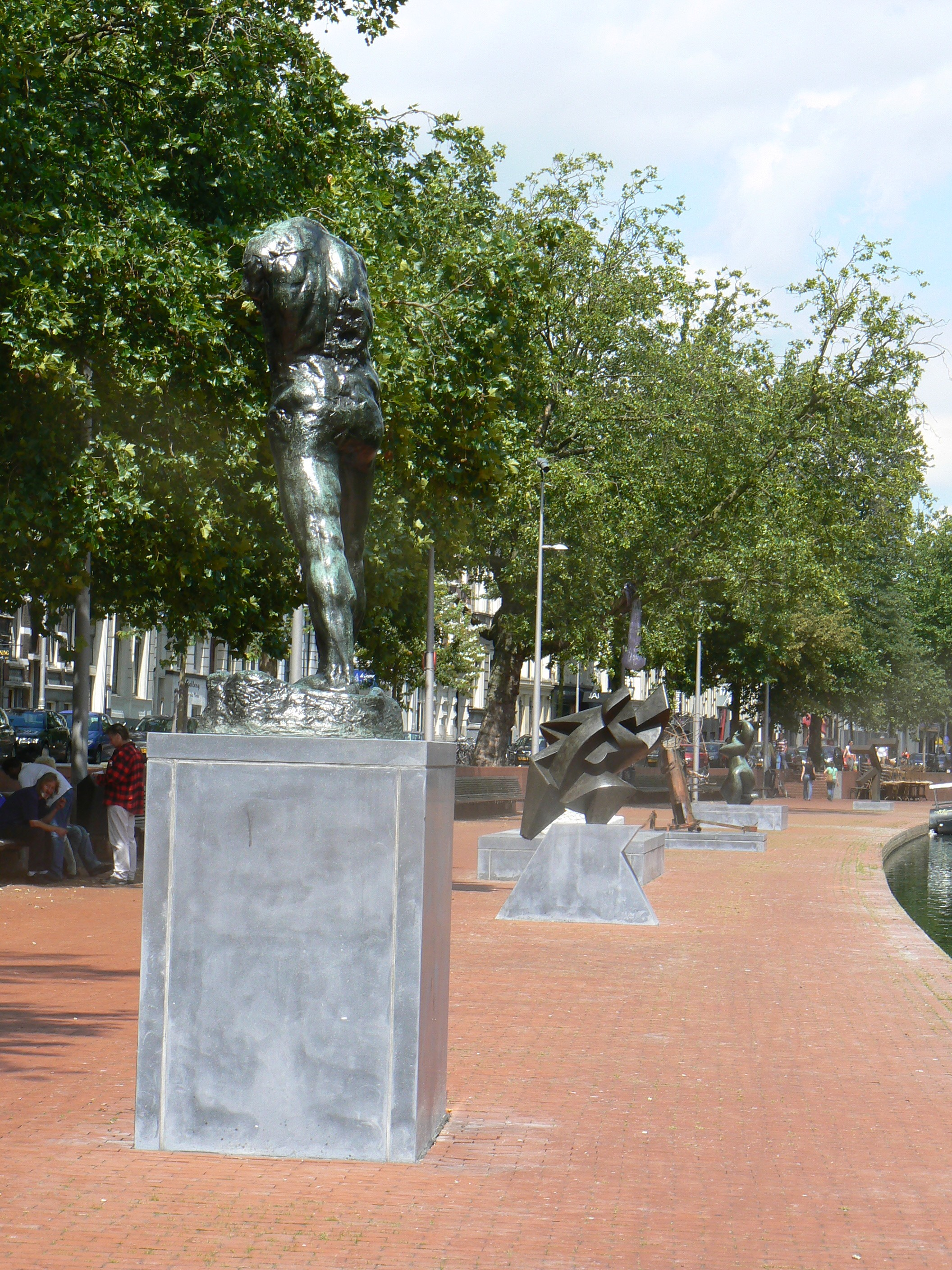 Sculptures in Rotterdam/The Netherlands